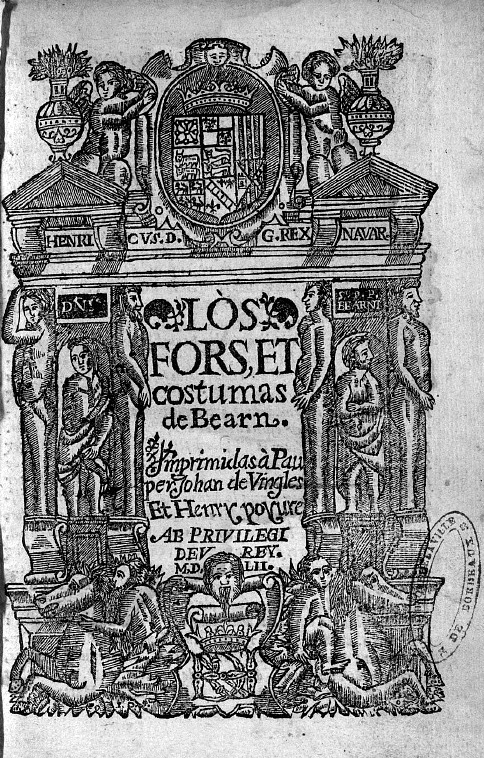 First page of the 1552 edition of the "Fòrs de Bearn"